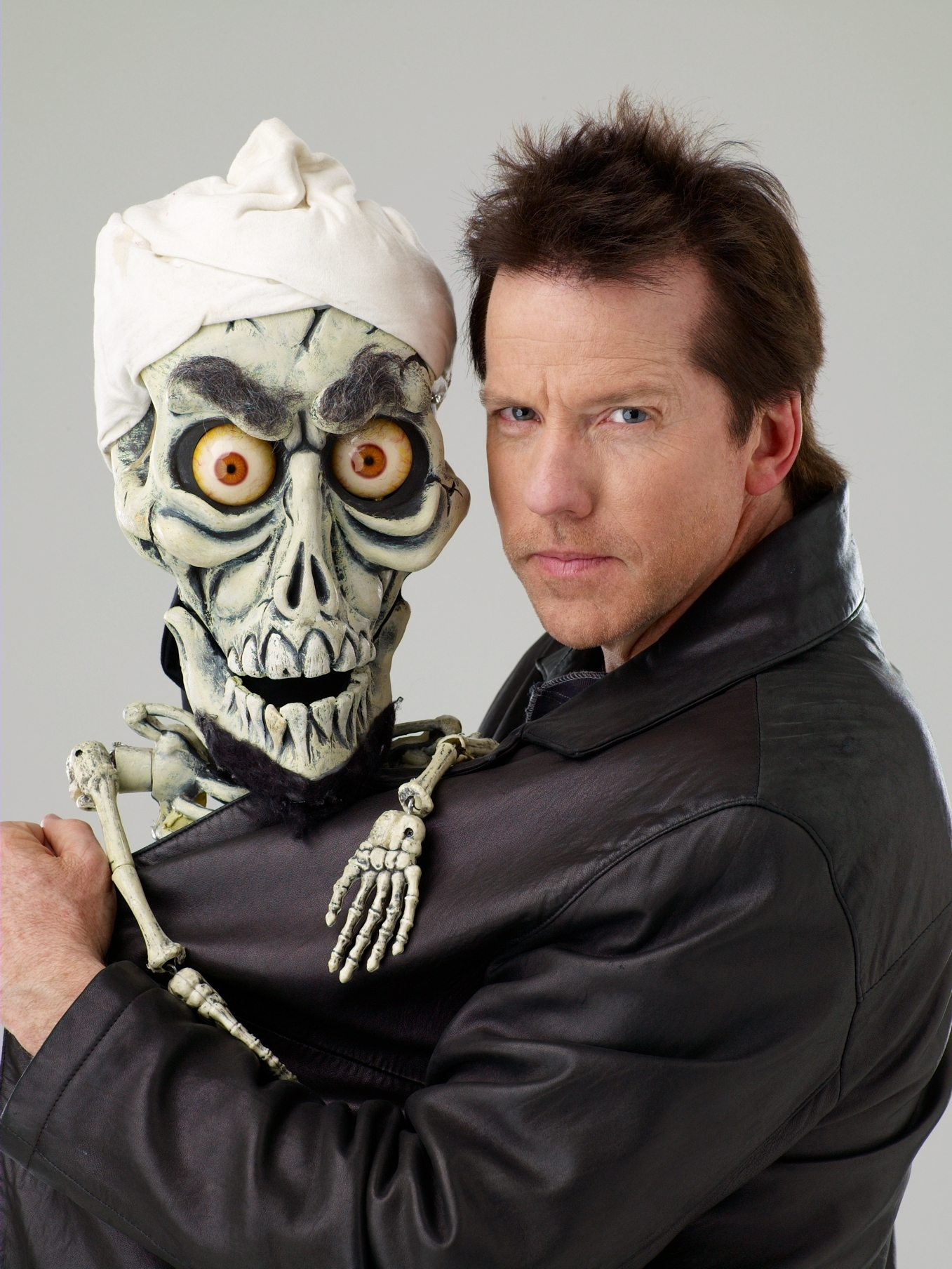 Jeff Dunham, American comedian, with his puppet / character "Achmed the Dead Terrorist"